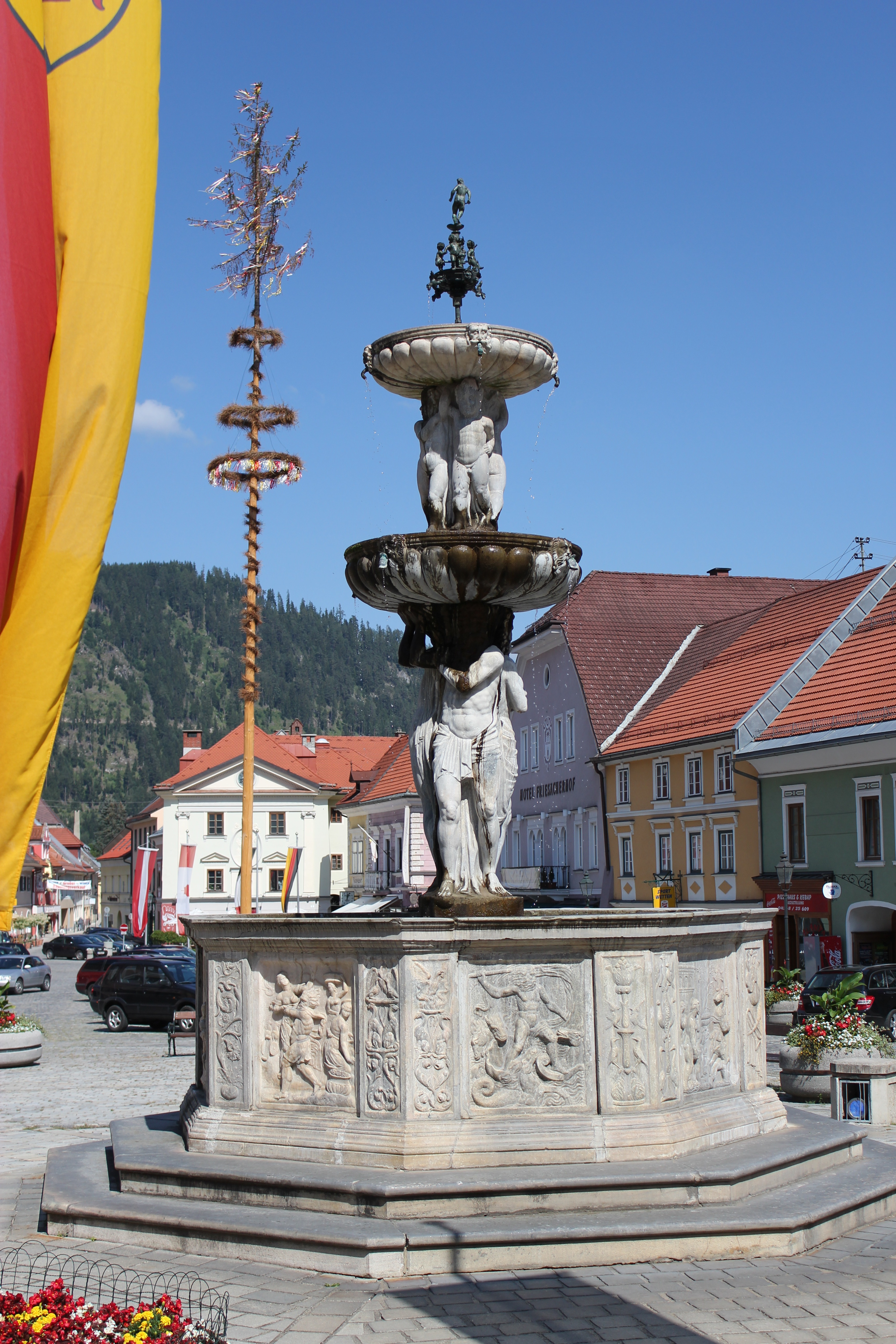 Fountain in Friesachl